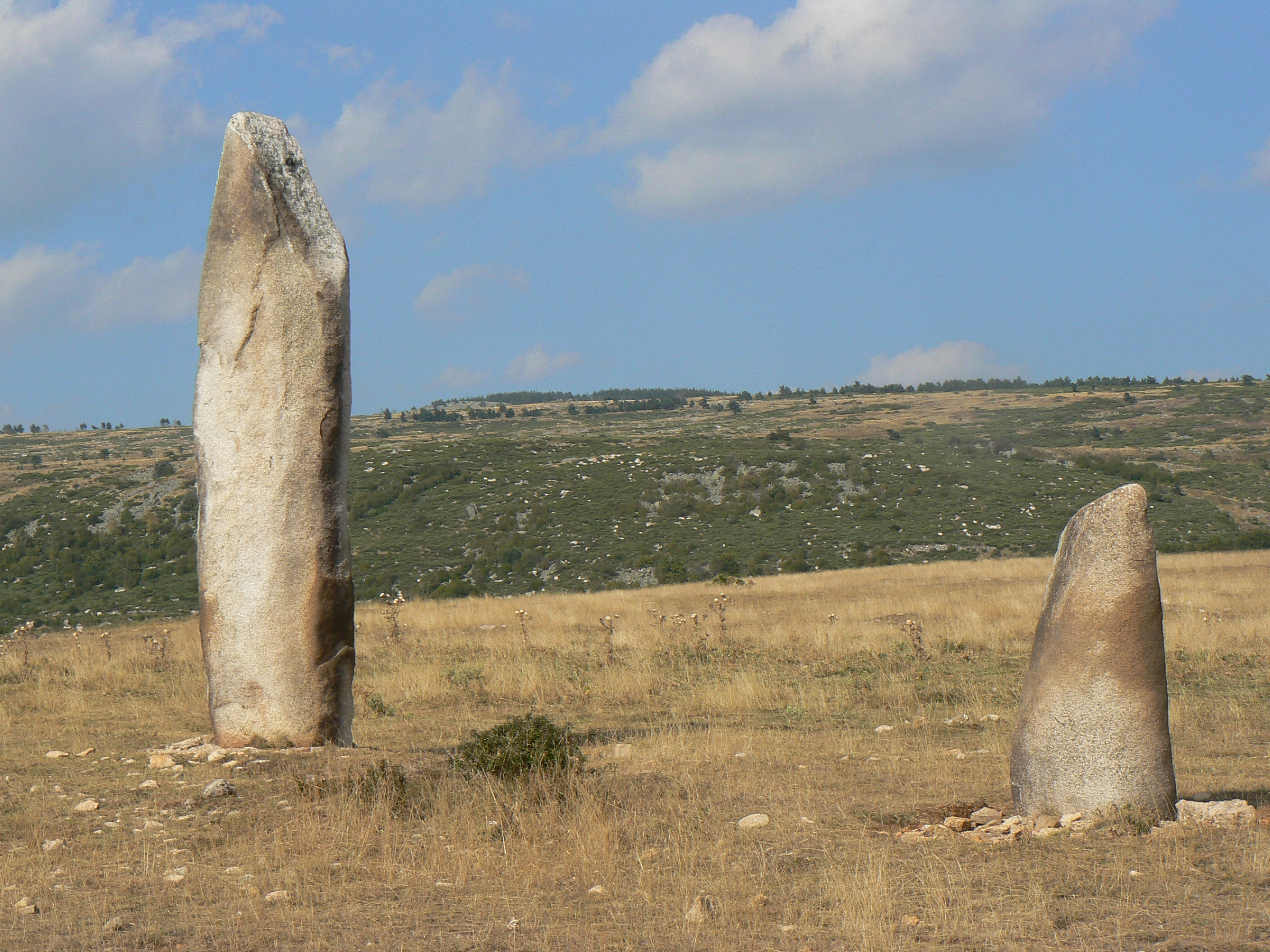 Couple de menhirs du groupe de la Veissière, sur le site de la Cham des Bondons en Lozère (France)